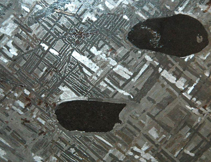 Octahedrite - a cut, polished, and nitric acid-etched surface of the Cape York Meteorite from Greenland. The large, black, irregularly rounded structures are masses of troilite - iron monosulfide (FeS). Each troilite nodule is surrounded by a silvery rim of schreibersite - iron nickel cobalt phosphide ((Fe,Ni,Co)3P). The criss-crossing blades of metal (Widmanstätten structure) are mostly kamacite, with some taenite. Collected 1982. Odessa Meteor Crater Museum public display (Odessa, Texas, USA).